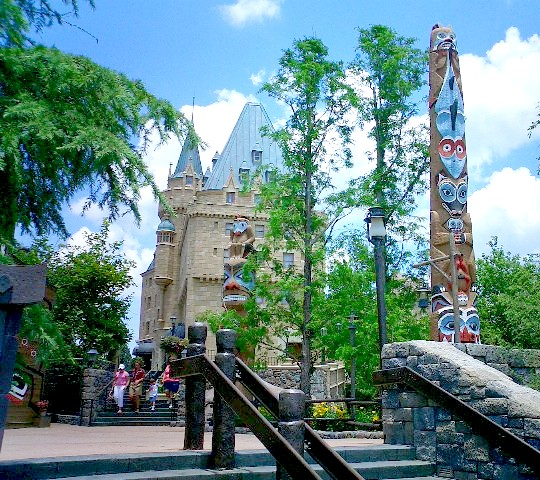 Epcot Canada